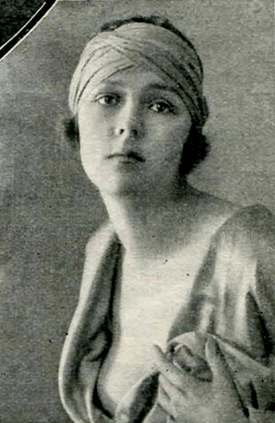 Actress Doris Lloyd, on page 17 of the August 1920 The Tatler.